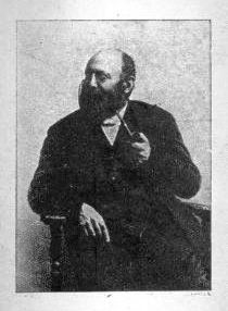 Parmenio Bettoli (1835-1907), giornalista e commediografo.